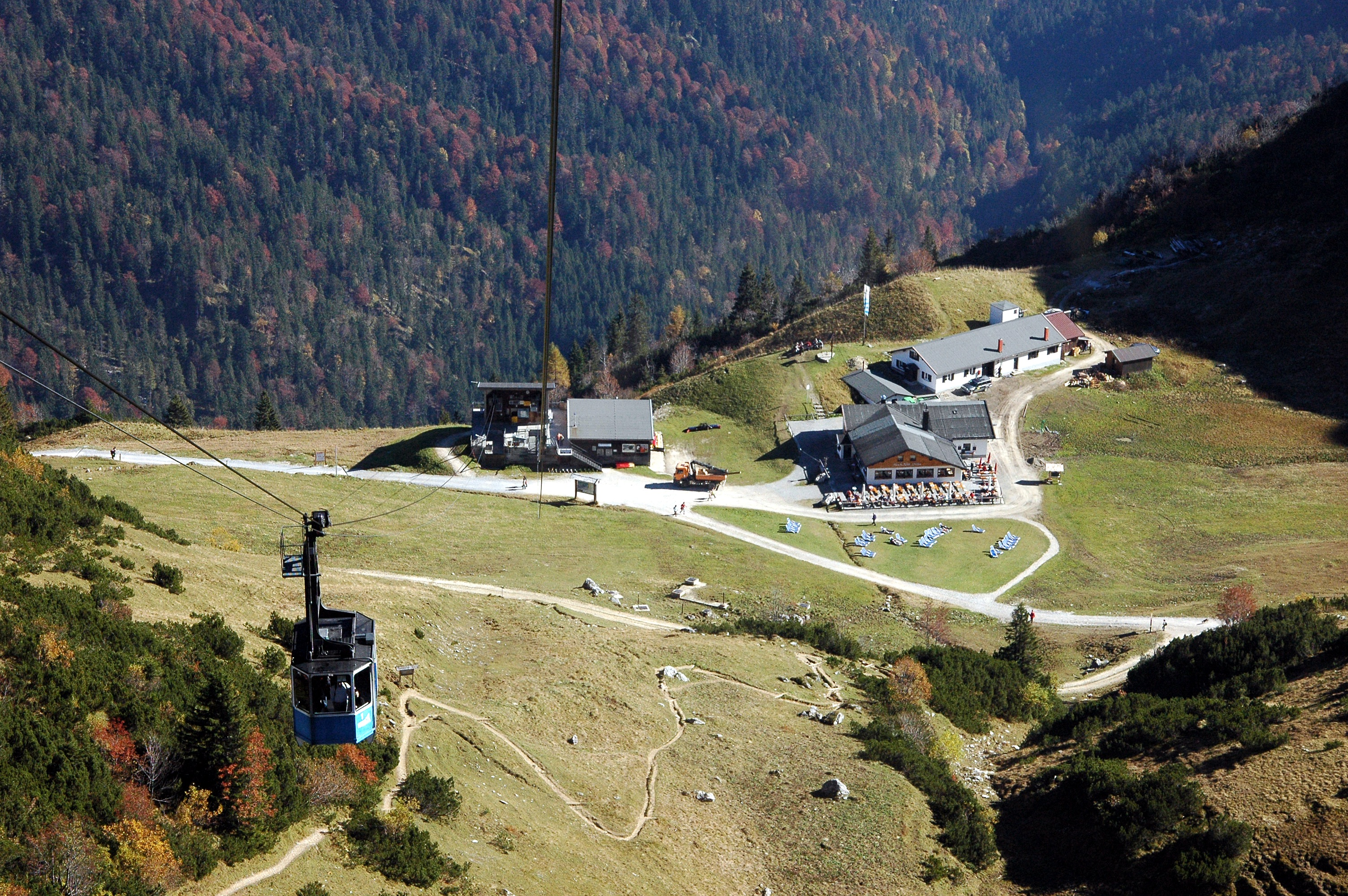 View out of cabin 2 of the Hochalm cableway to the station at the bottom of the cableway. The Hochalm is situated on the right side.